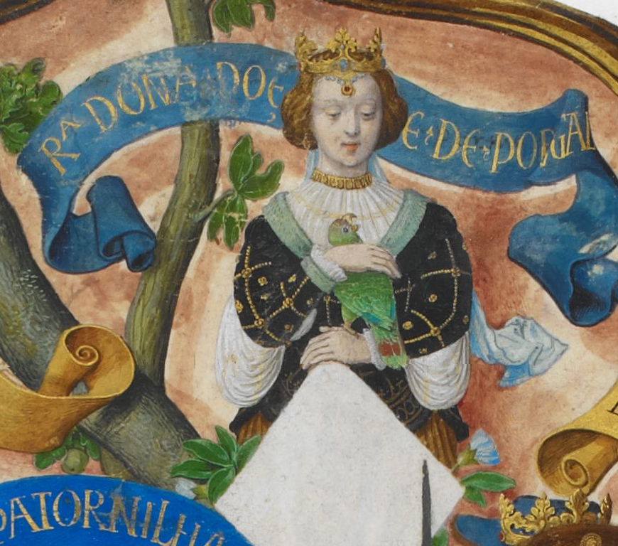 Dulce of Aragon, Queen of Portugals